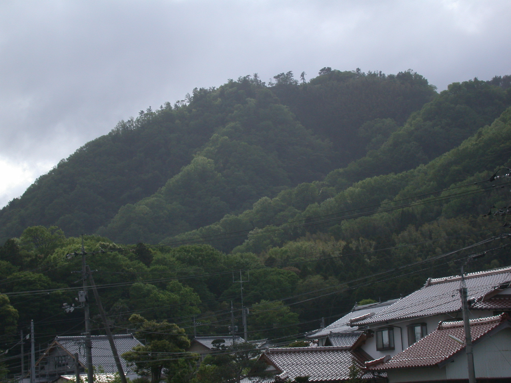 Tobigasu Castle (Mount Tobigasu) in Izumo, Shimane prefecture